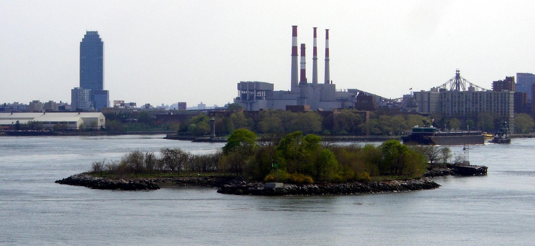 Mill Rock Island from the 103rd St bridge. Big Allis and the Citibank Tower are in the background.